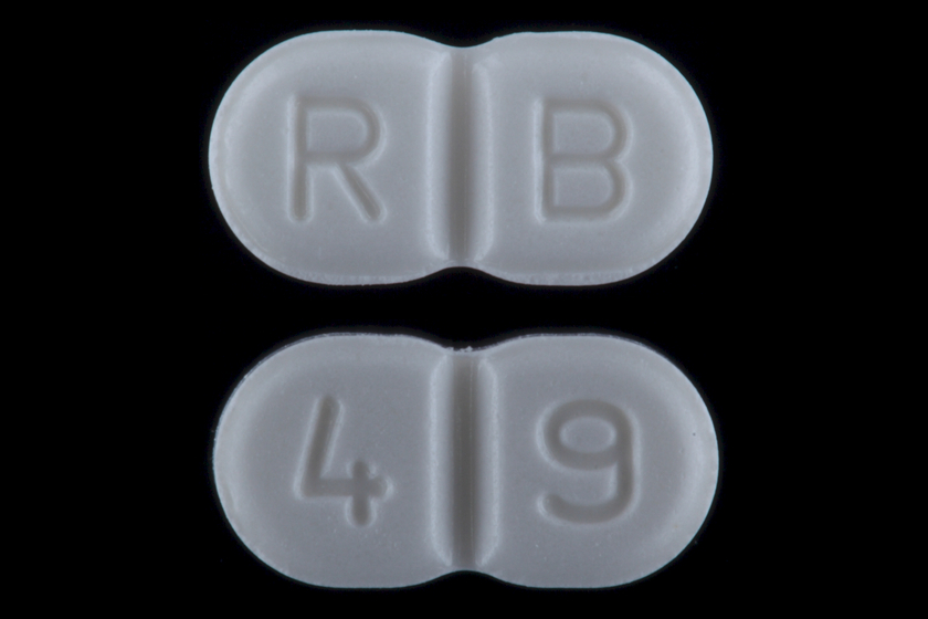 Drug Name: Glimepiride 2 MG Oral Tablet Ingredient(s): Glimepiride Drug Label Imprint: R;B;4;9 Color(s): White Shape: Double circle Size (mm): 8.00 Score: 2 Inactive Ingredient(s): Show fd&c blue #2 aluminium lake / lactose monohydrate ... Drug Label Author: Ranbaxy pharmaceuticals DEA Schedule: Non-scheduled